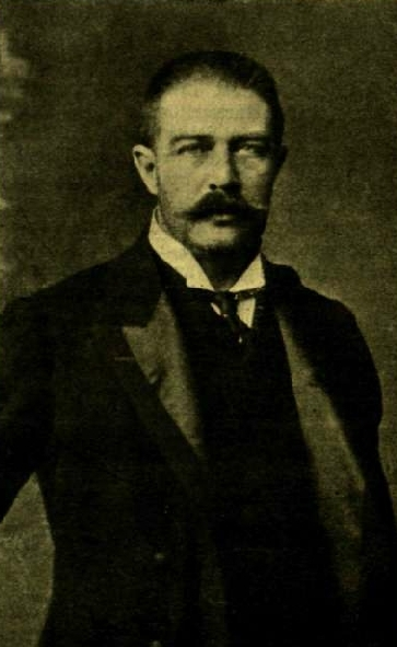 Aladár Zichy, Hungarian politician